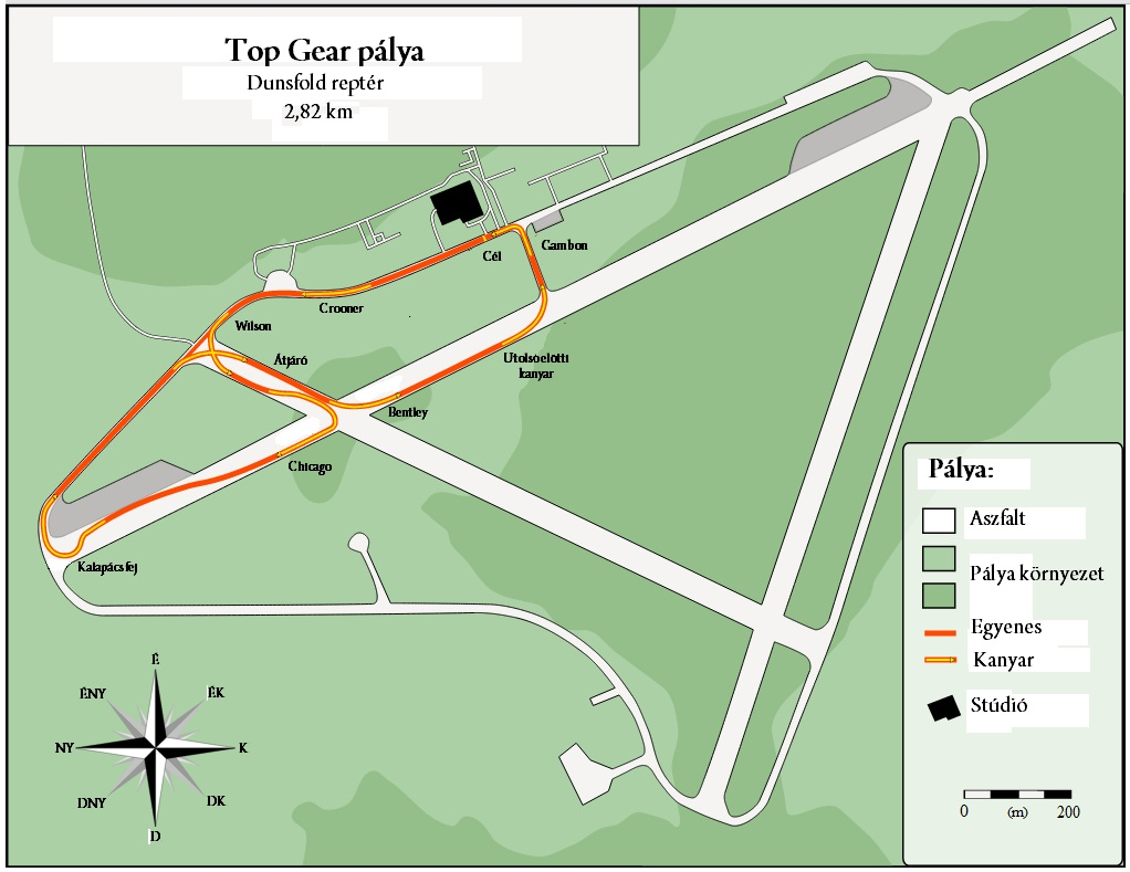 Top gear track map.